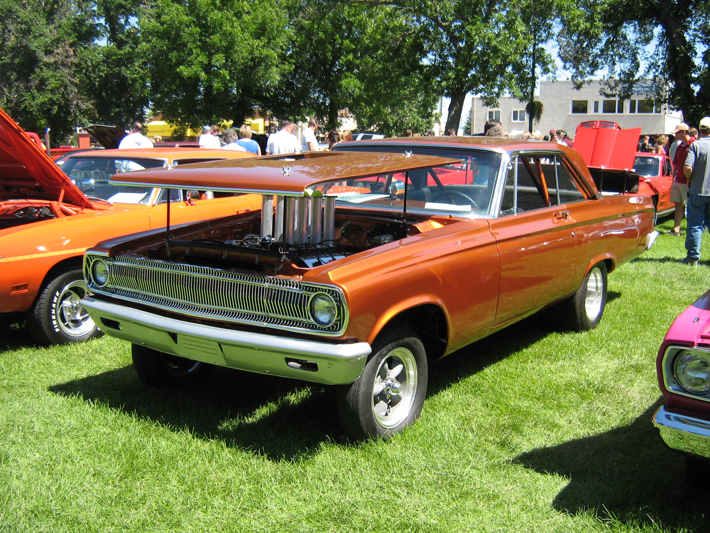 1965 Dodge Cornet AFX with 742 Hemi V8 engine